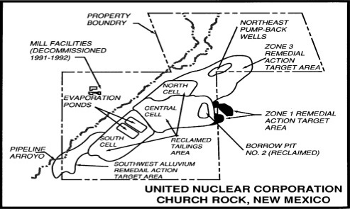 EPA map of remedial efforts at the United Nuclear Corporation site near Church Rock in McKinley County, New Mexico.